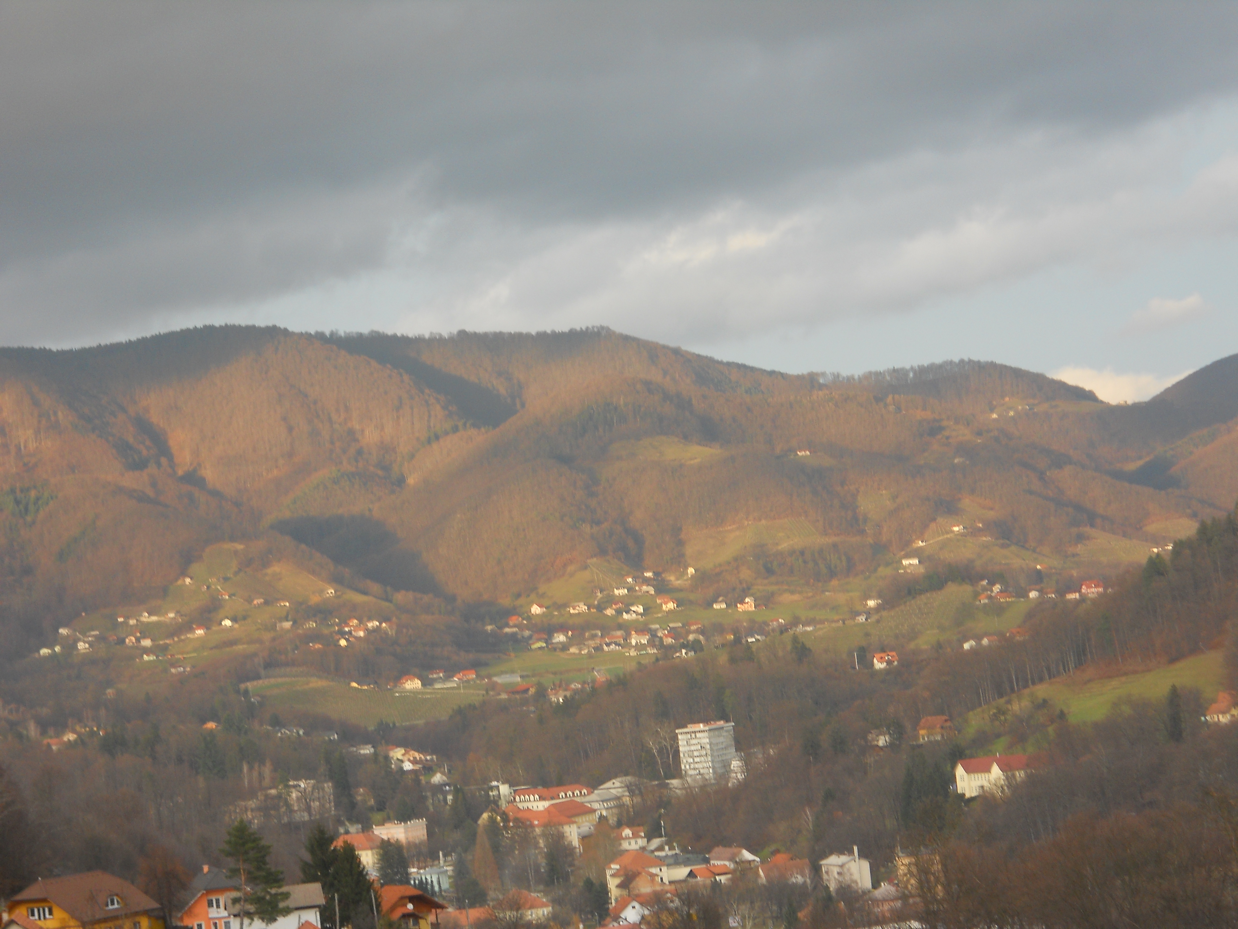 The mountain chain Boč and Rogaška Slatina. Photo taken from Prnek, Rogaška Slatina.